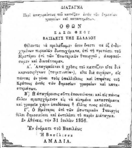 Decree issued by King Otto and Queen Amalia, prohibiting smoking within state buildings. That is the first ban on smoking in modern Greece.